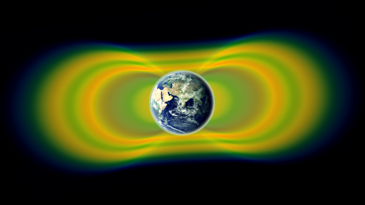 Two giant swaths of radiation, known as the Van Allen Belts, surrounding Earth were discovered in 1958. In 2012, observations from the Van Allen Probes showed that a third belt can sometimes appear. The radiation is shown here in yellow, with green representing the spaces between the belts.